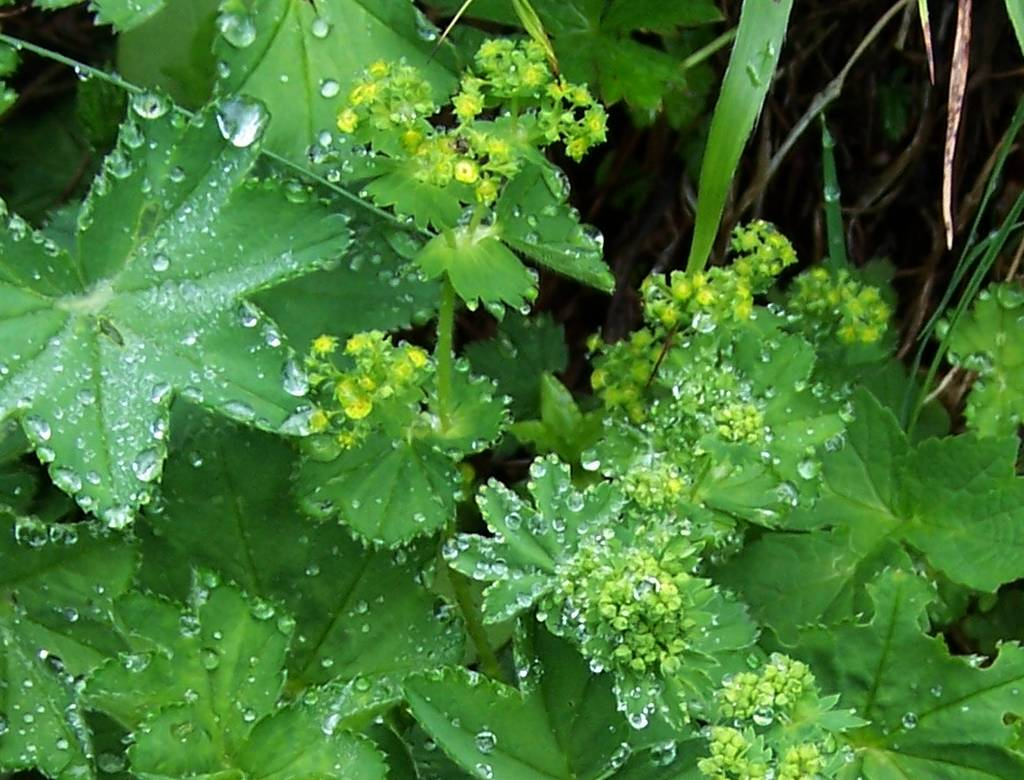 Alchemilla gracilis (habitat:Tatra Mountains - Dolina Tomanowa)